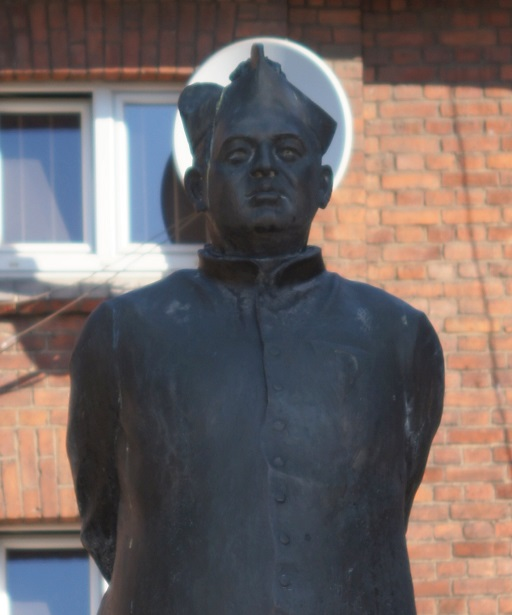 Bronisław Komorowski, monument in Gdańsk.